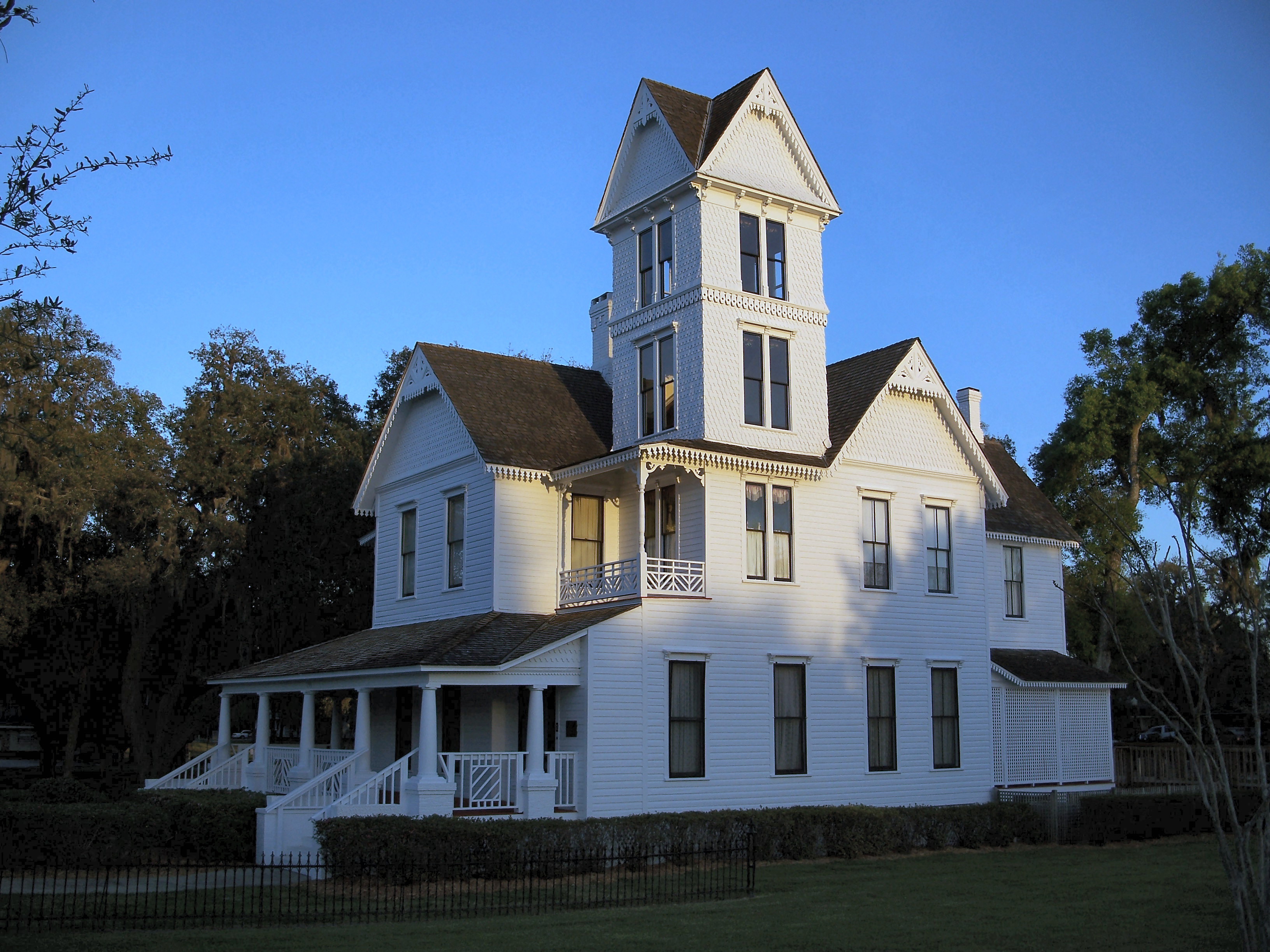 Mote-Morris House, in Leesburg, Florida